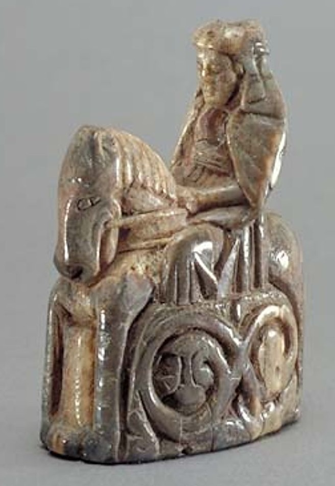 A chess queen of walrus tusk, used in Sweden from about 1250